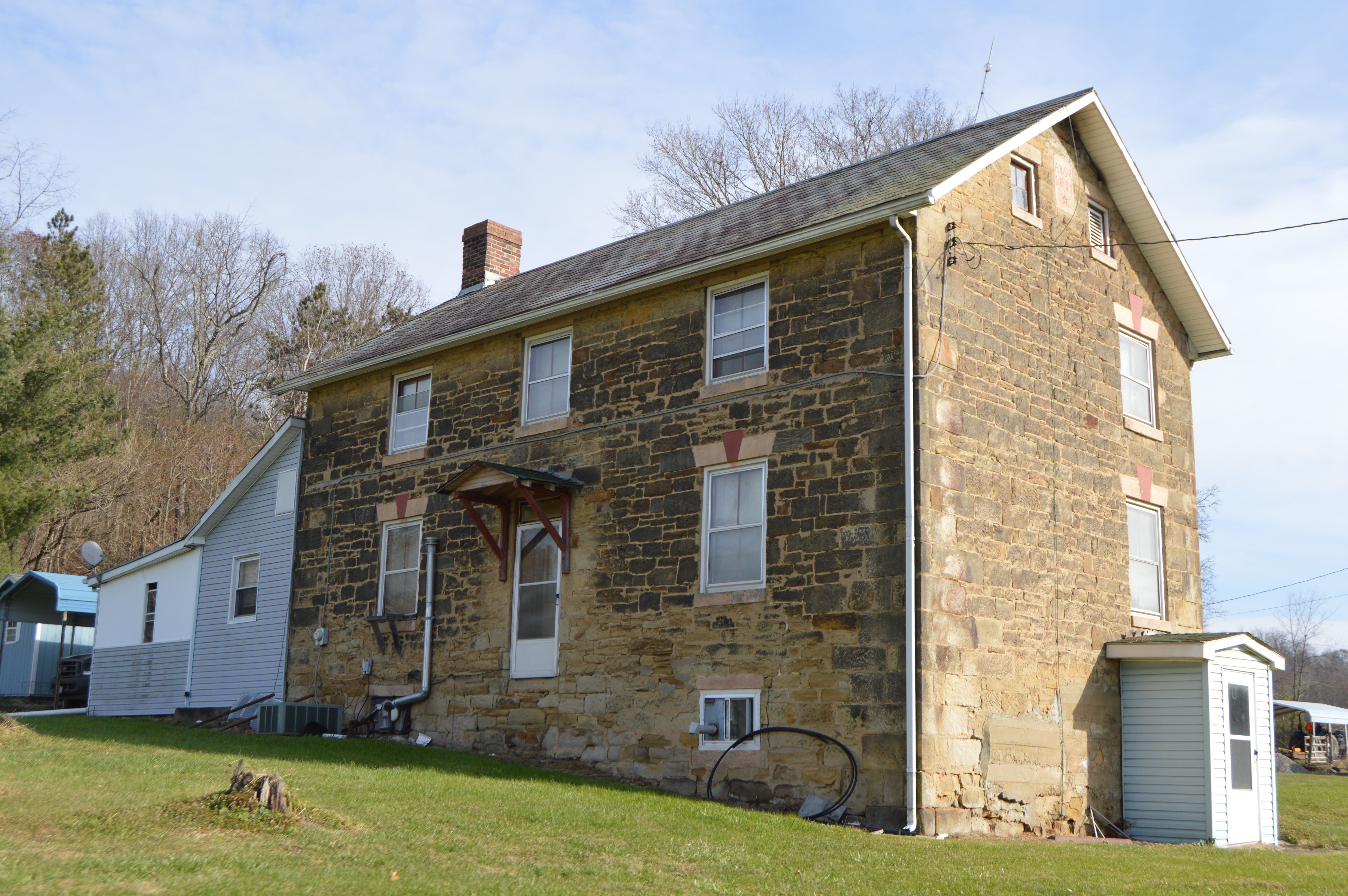 Northwestern and southwestern sides of the Adam Rider House, located on Athens Road just southeast of Roseville in Clay Township, Muskingum County, Ohio, United States. Built in 1831, it is listed on the National Register of Historic Places.